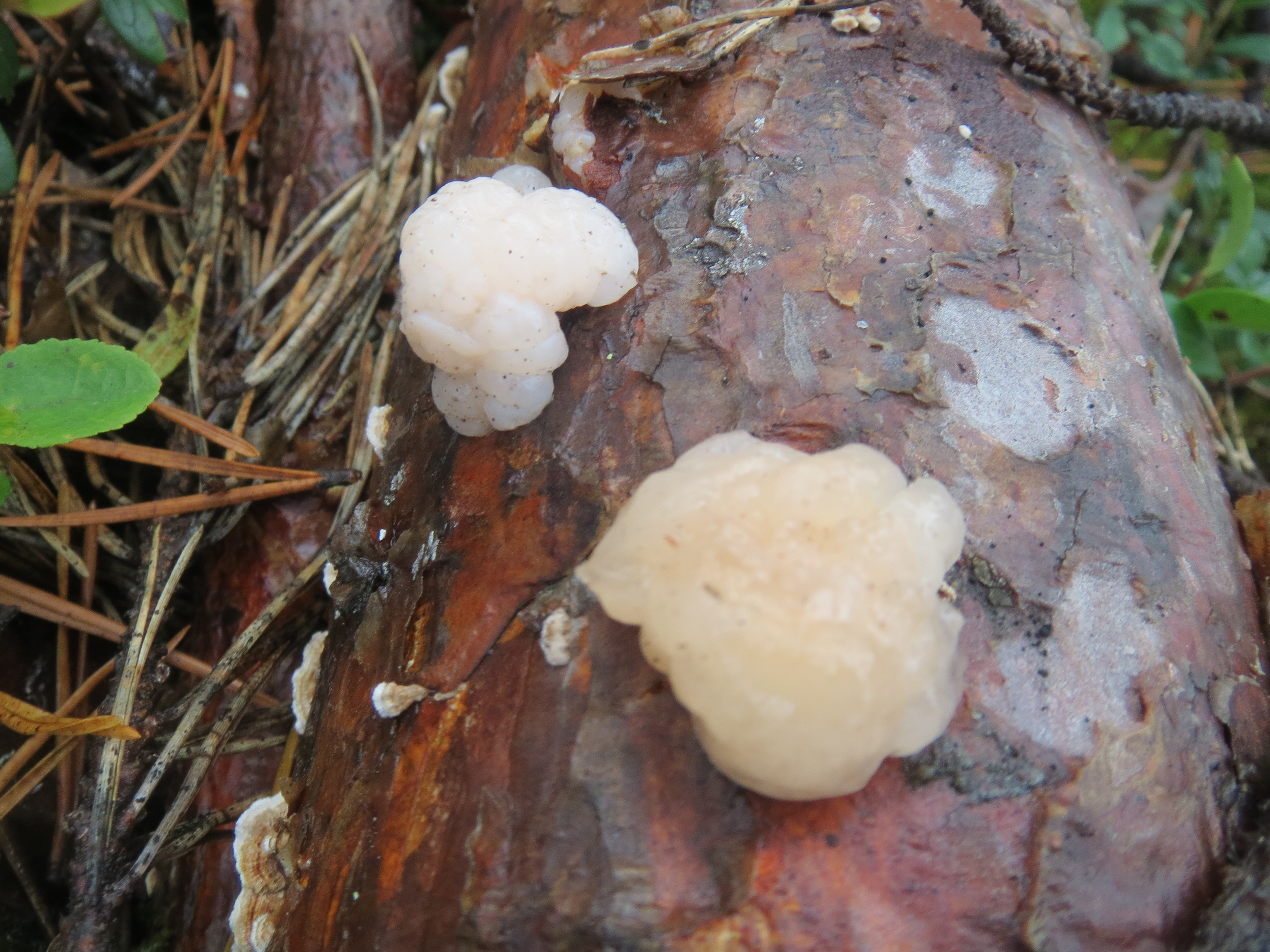 TremellaEncephala_and_StereumSanguinolentum01